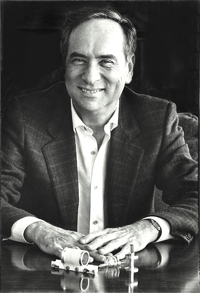 Press photo taken for the Los Angeles Reader on the occasion of the 25th anniversary of the laser at T. Maiman's Los Angeles home.